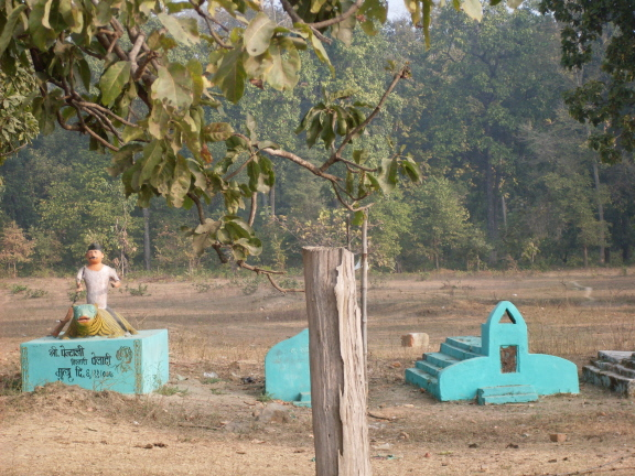 Madia Gond memorial to the dead, the inscription Marathi in Devnagari Script and translates as Shri. Pentaji Vistari Veladi, died 6 - 11 - 007 (DD-MM-YYY)